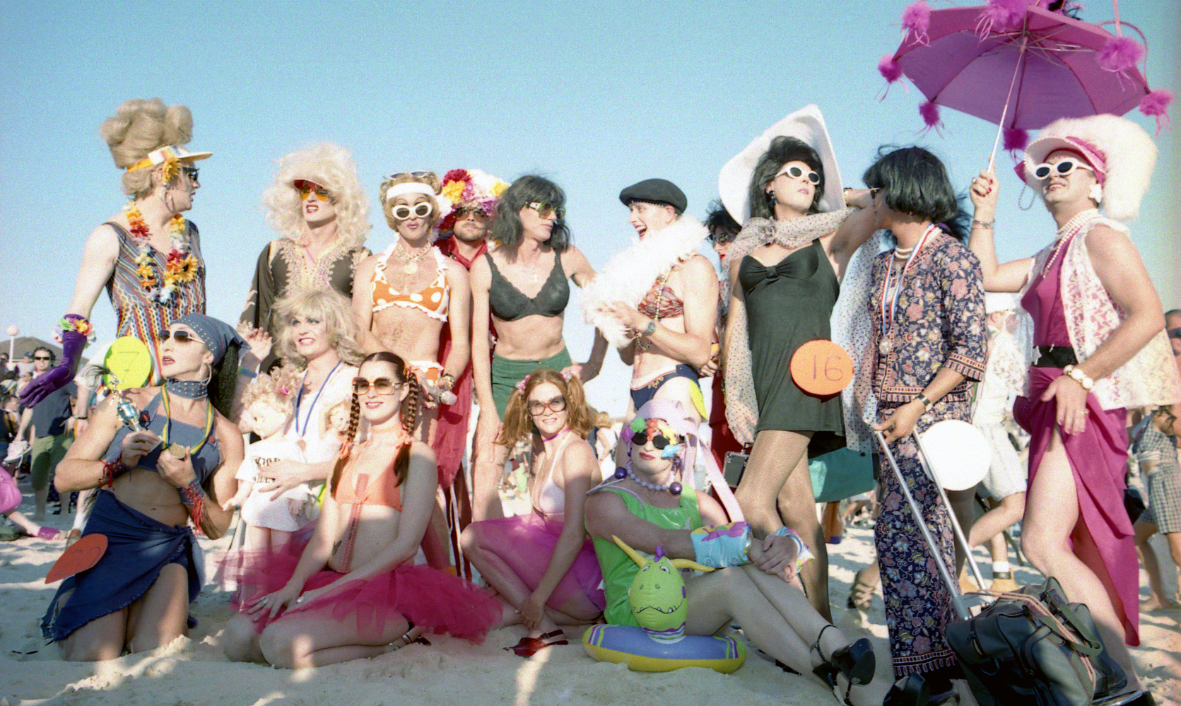 In conjunction with the Sydney Gay and Lesbian Mardi Gras, these are the "Drag Races" or queer olympicsLocation: Bondi Beach, Sydney, AustraliaEvent type: drag racesDate or year: 1996